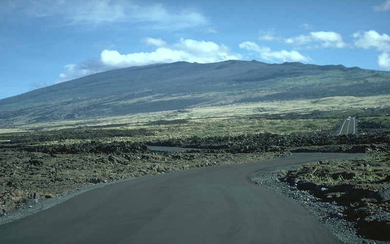 View of Hualalai southeast from Kuki`i Beach. Hualalai has three rift zones, recognized by prominent cinder and spatter cones that trend northwest, north, and south-southeast from a point about 5 km east of its summit.